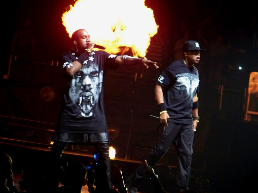 Kanye West and Jay-Z performing at Staples Center on December 11, 2011 in Los Angeles on their Watch the Throne Tour.